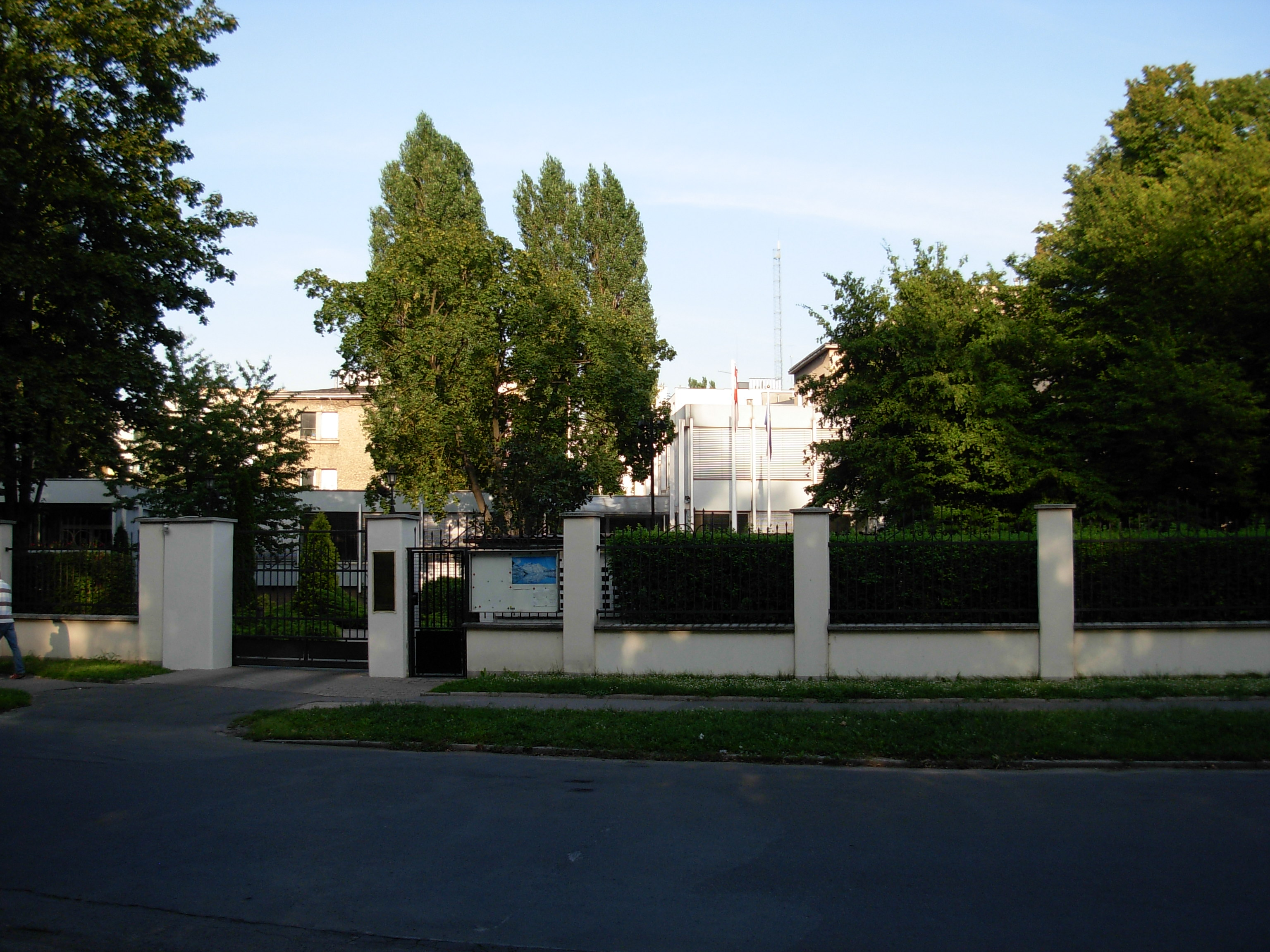 Austrian Embassy in Warsaw